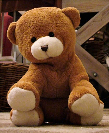 Nalle is a small, brown teddy bear